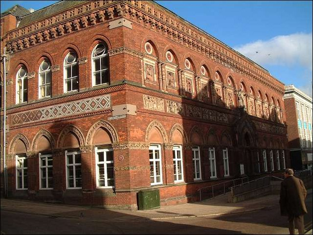 Josiah Wedgwood Memorial Institute Location: The whole façade of the Wedgwood Memorial Institute, (currently a library), Queen Street , Burslem Designed: 1863-69 - Foundation stone laid 26 October 1863; building opened 21 April 1869; School of Art and Science opened in October 1869; Free Library opened 1870; façade finished by November 1871 Commissioned by: public subscription Architects: George Benjamin Nichols, Robert Edgar and John Lockwood Kipling